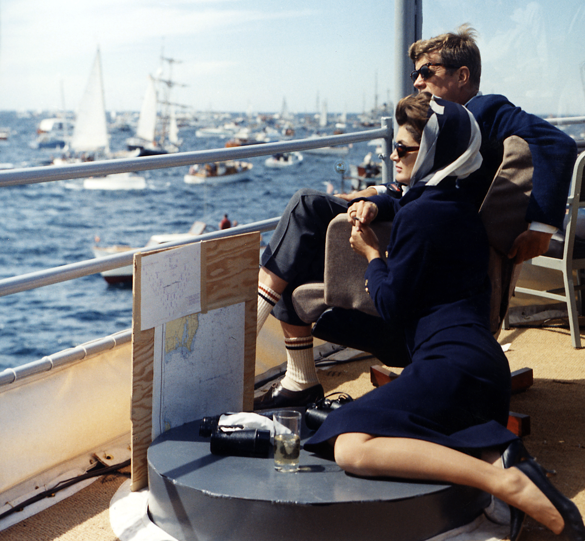 Watching the America's Cup Race. Mrs. Kennedy, President Kennedy, others. Off Newport, RI, aboard the USS Joseph P. Kennedy, Jr.